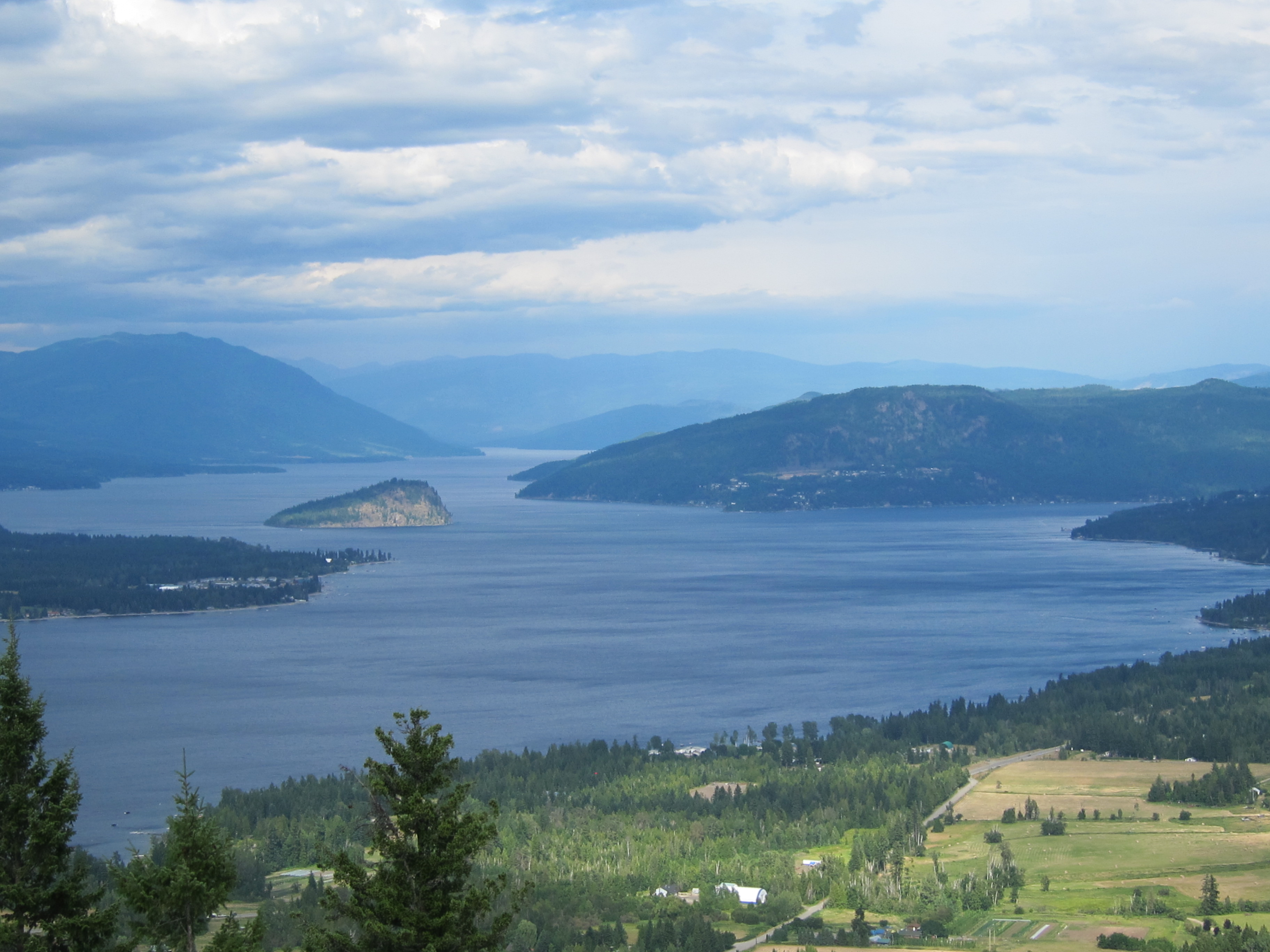 West end of Shuswap Lake, British Columbia, Canada. Copper Island is left of centre. View is from Mount Baldy, near Sorrento.